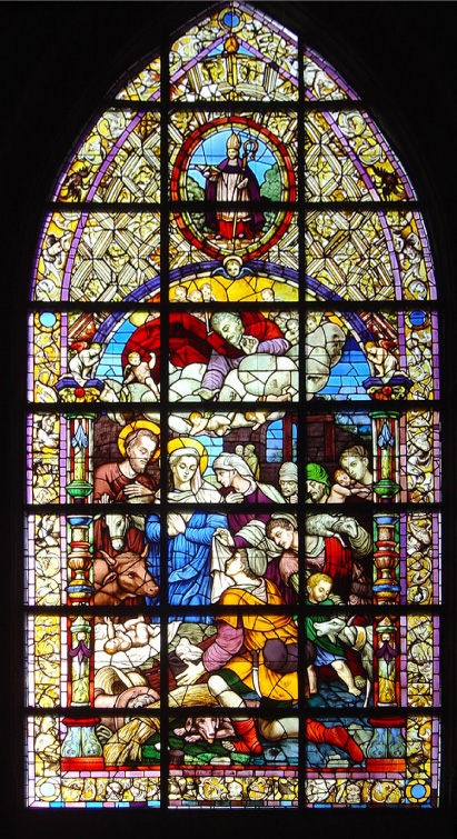 A stained glass window of Seville Cathedral in Seville, Province of Seville, Spain.